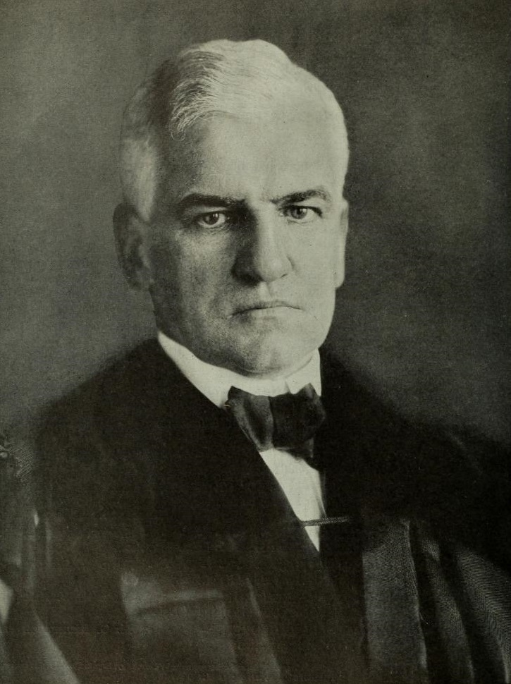 Portrait of John Hessin Clarke